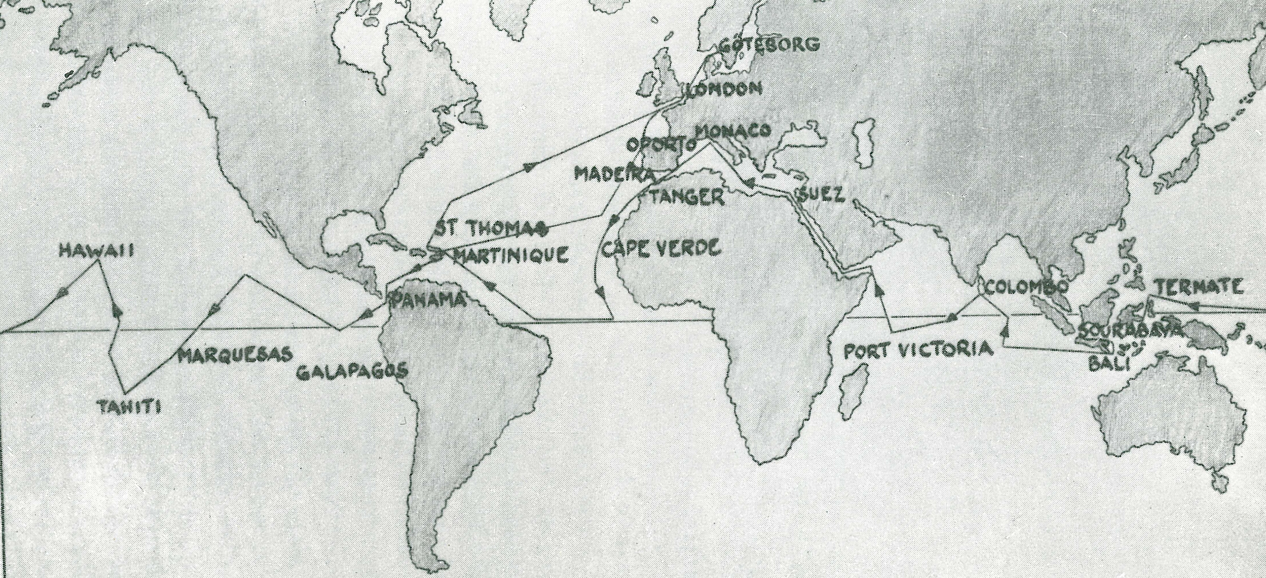 Map over the Albatross expedition